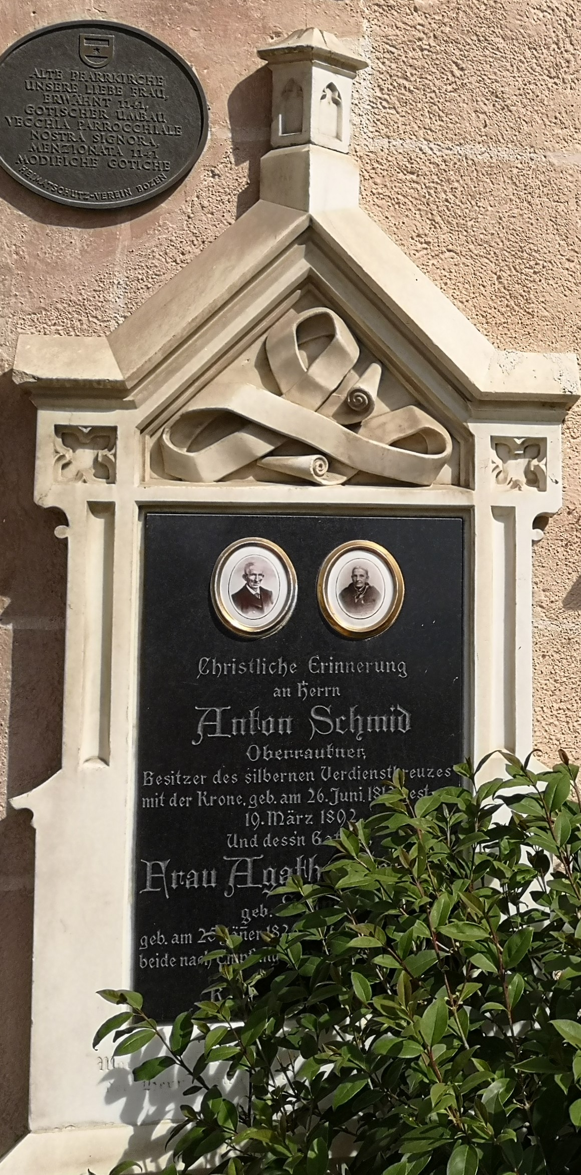 Tombstone of the Schmid-Oberrautner family at the old St Mary's Parish of Gries in Bozen-Bolzano, 19th century